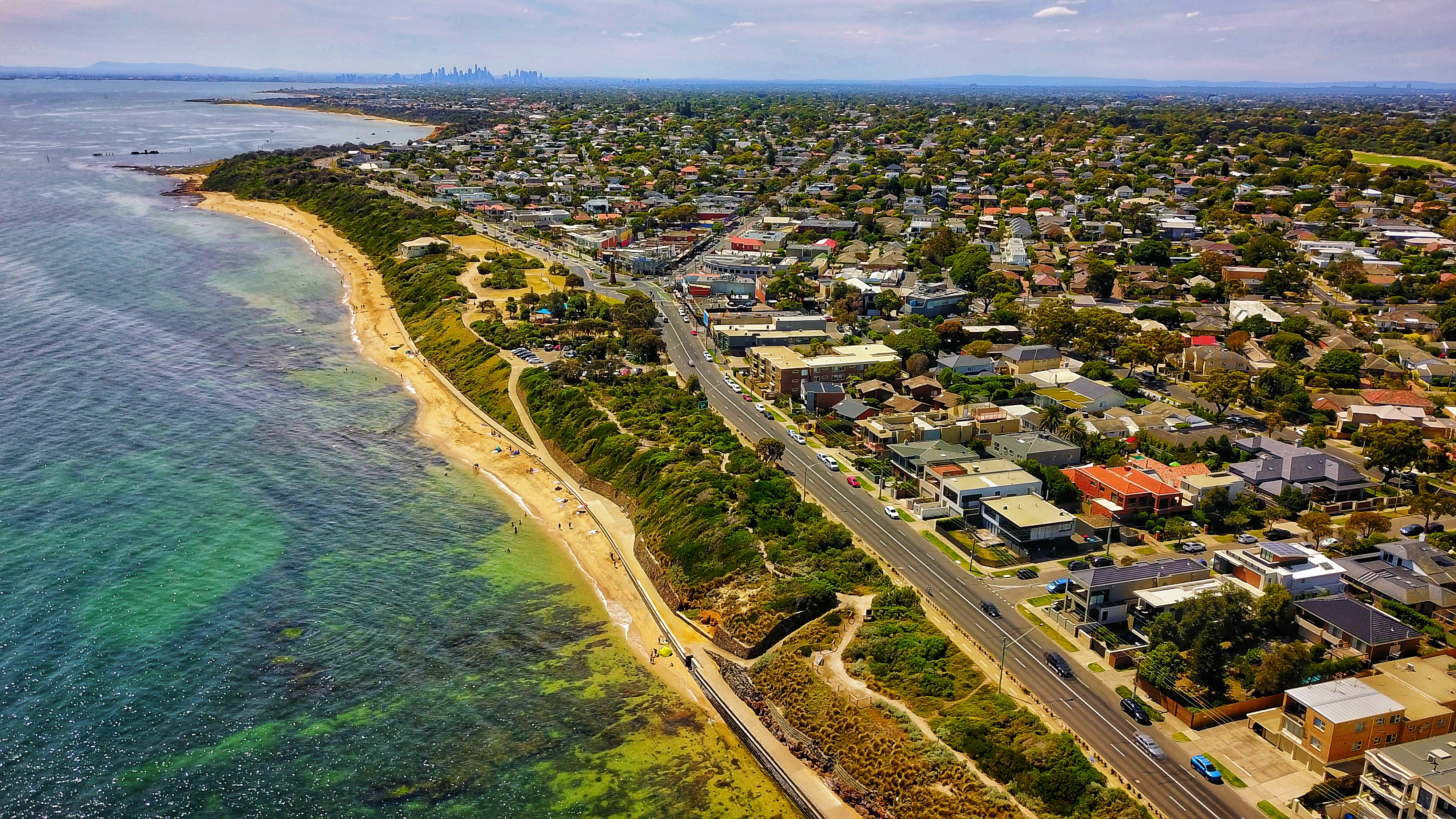 Aerial perspective of the Rock suburb relative to Port Philip Bay and the Melbourne CBD January 2019